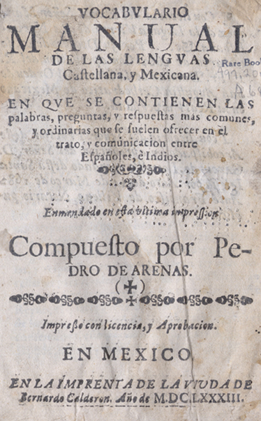 Title page of the 1683 edition of Vocabulario manual de las lenguas Castellana y Mexicana.